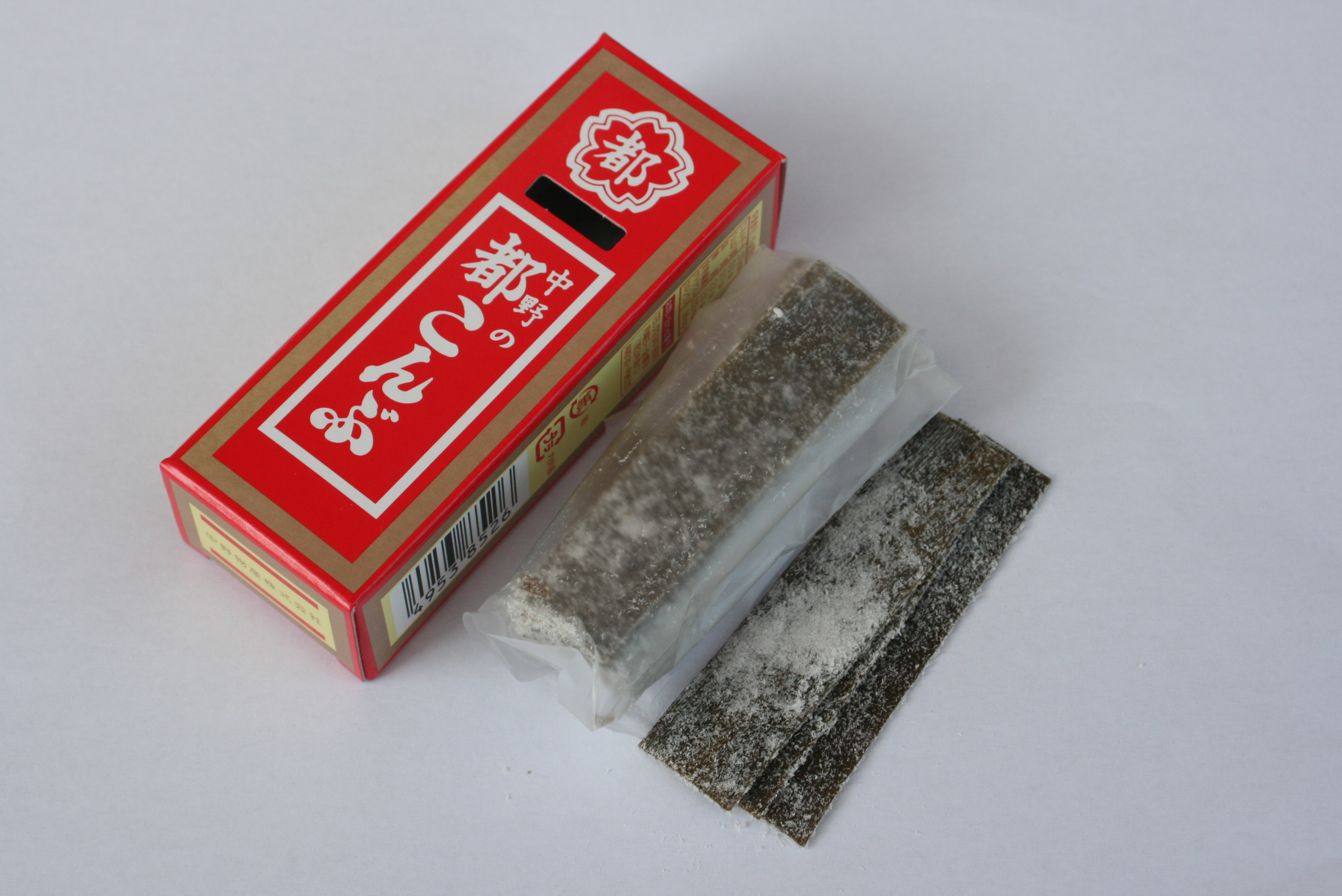 Miyako Kombu made by Nakano Corp.